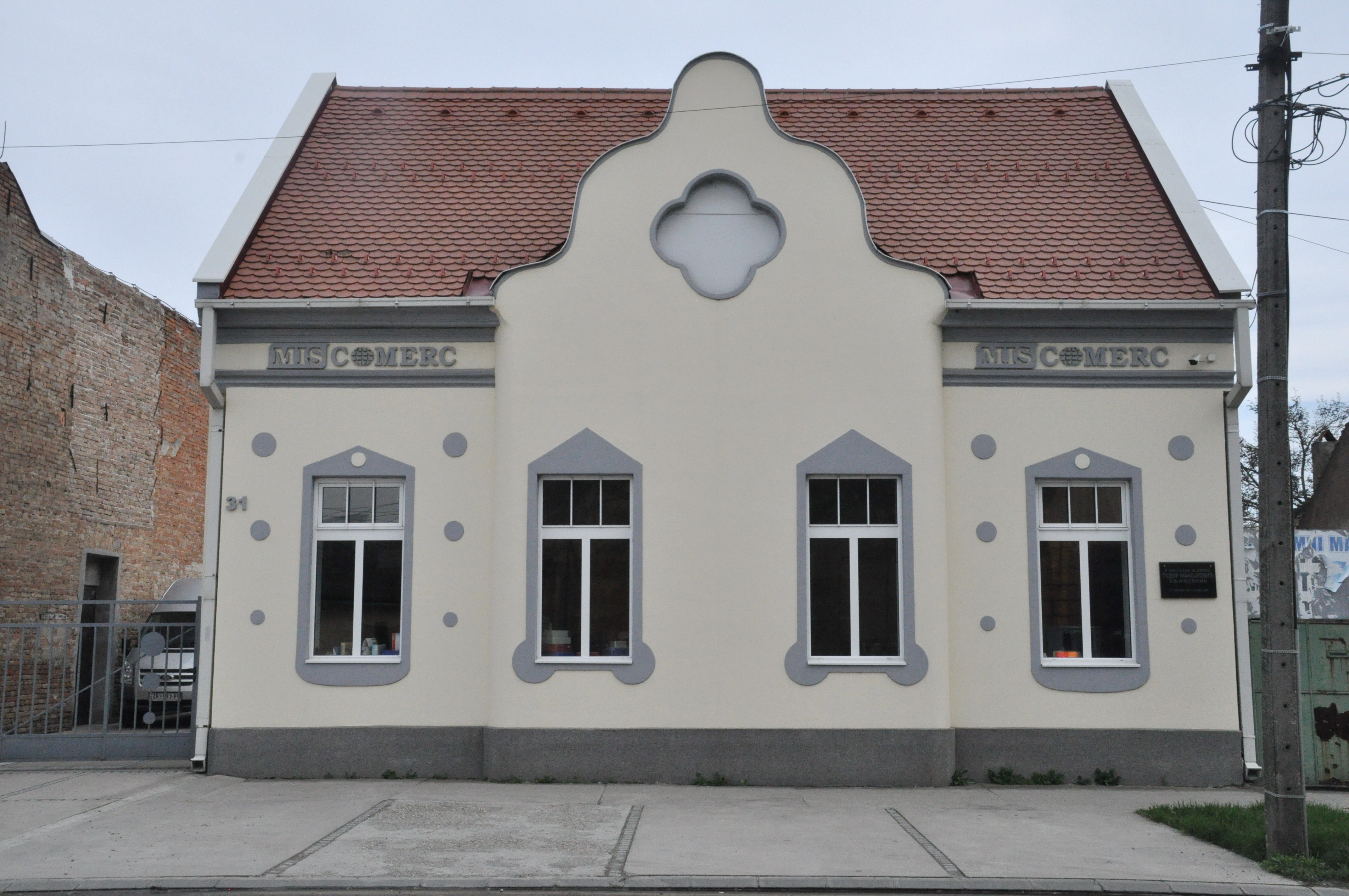 Todor Manojlović house